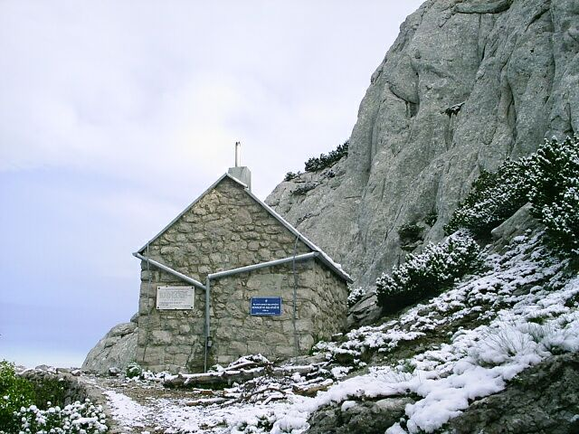 Velebit Mountains, Croatia